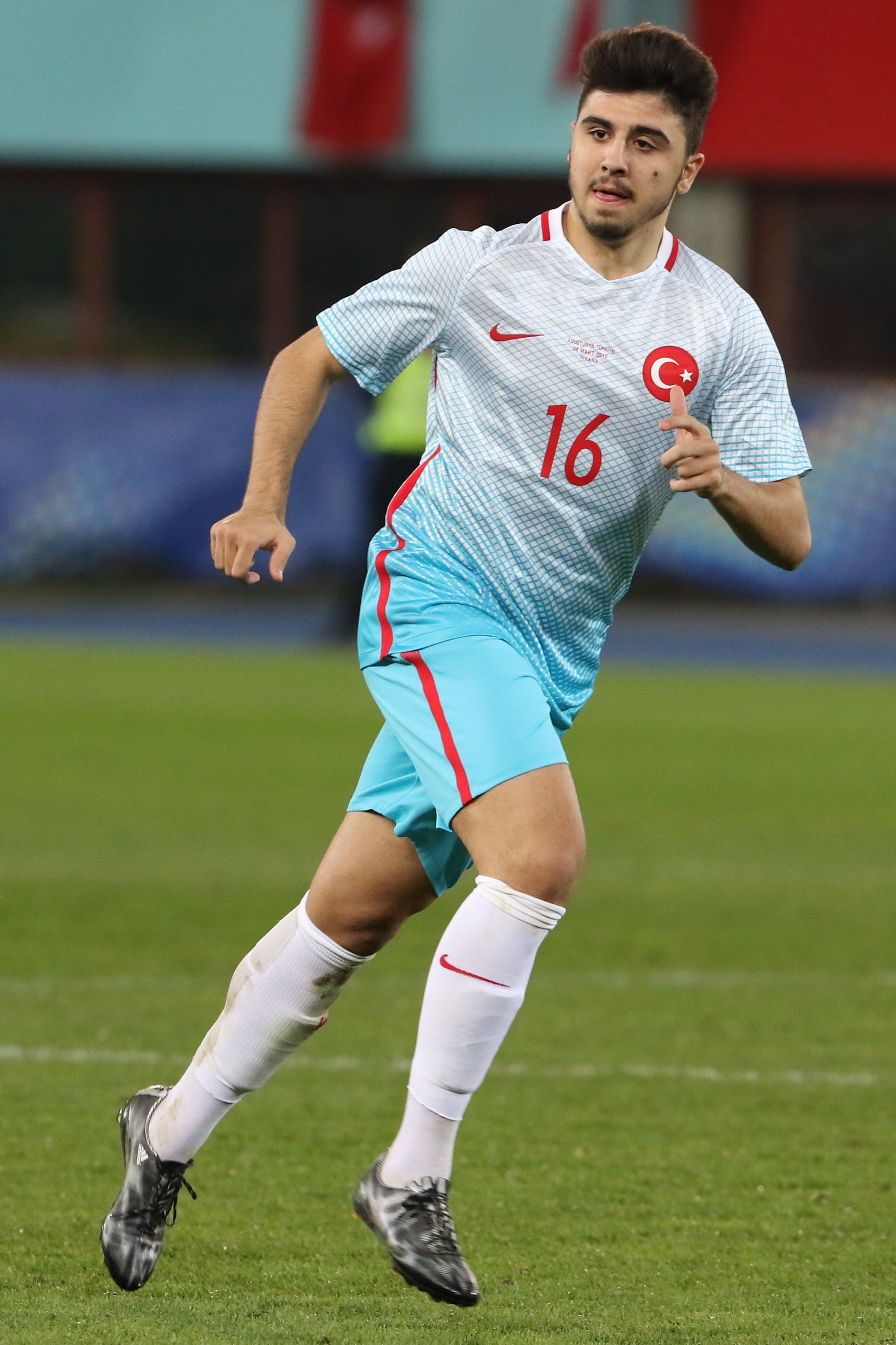 Friendly match – Austria (red shirts) vs. Turkey (blue shirts) 1–2 (1–1) on 2016-03-29 in Ernst-Happel-Stadion, Vienna – The photo shows Ozan Tufan (Fenerbahçe)